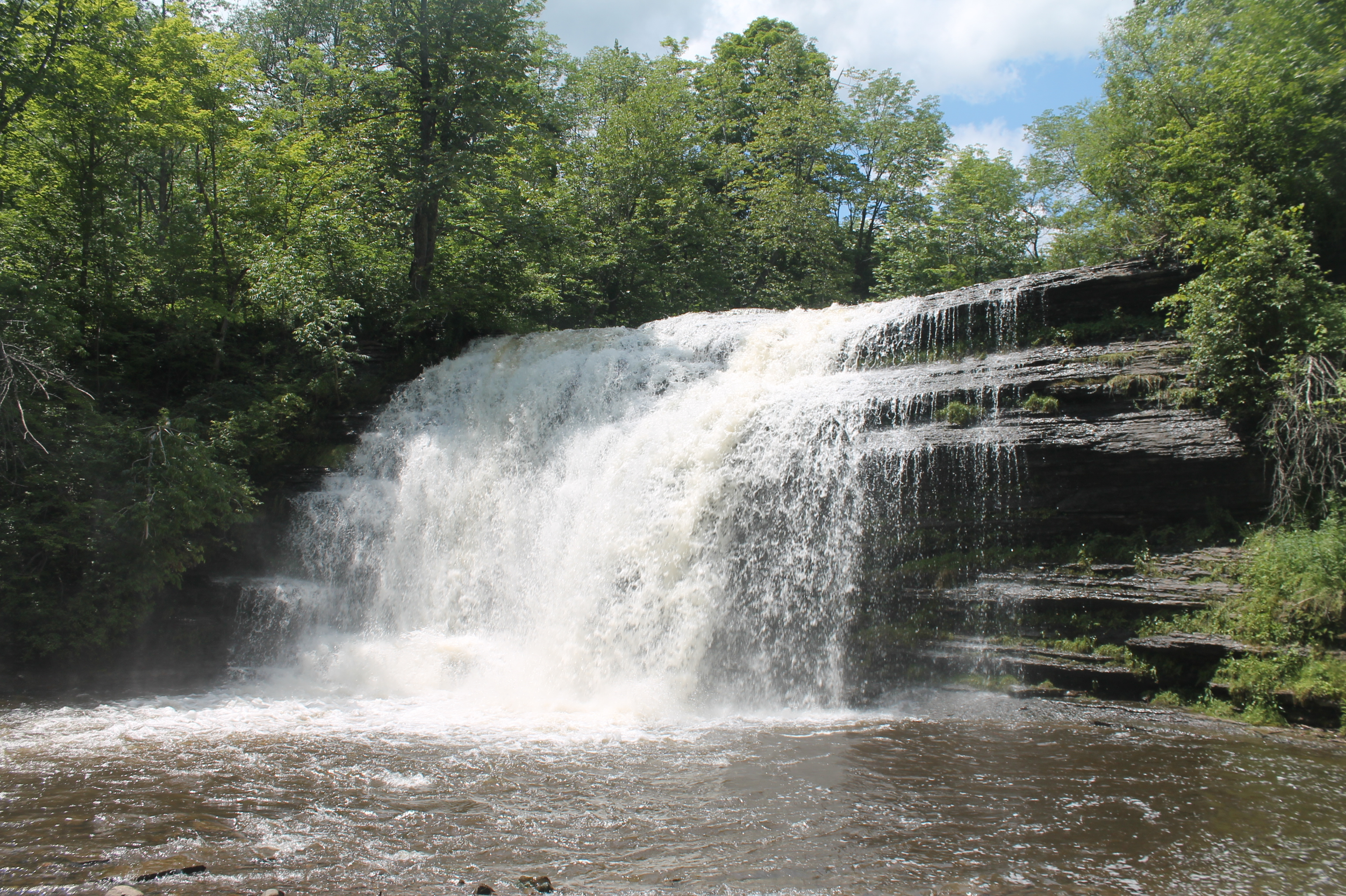 Pixley Falls from the gorge. Taken at Pixley Falls State Park on Sunday, June 30, 2013.